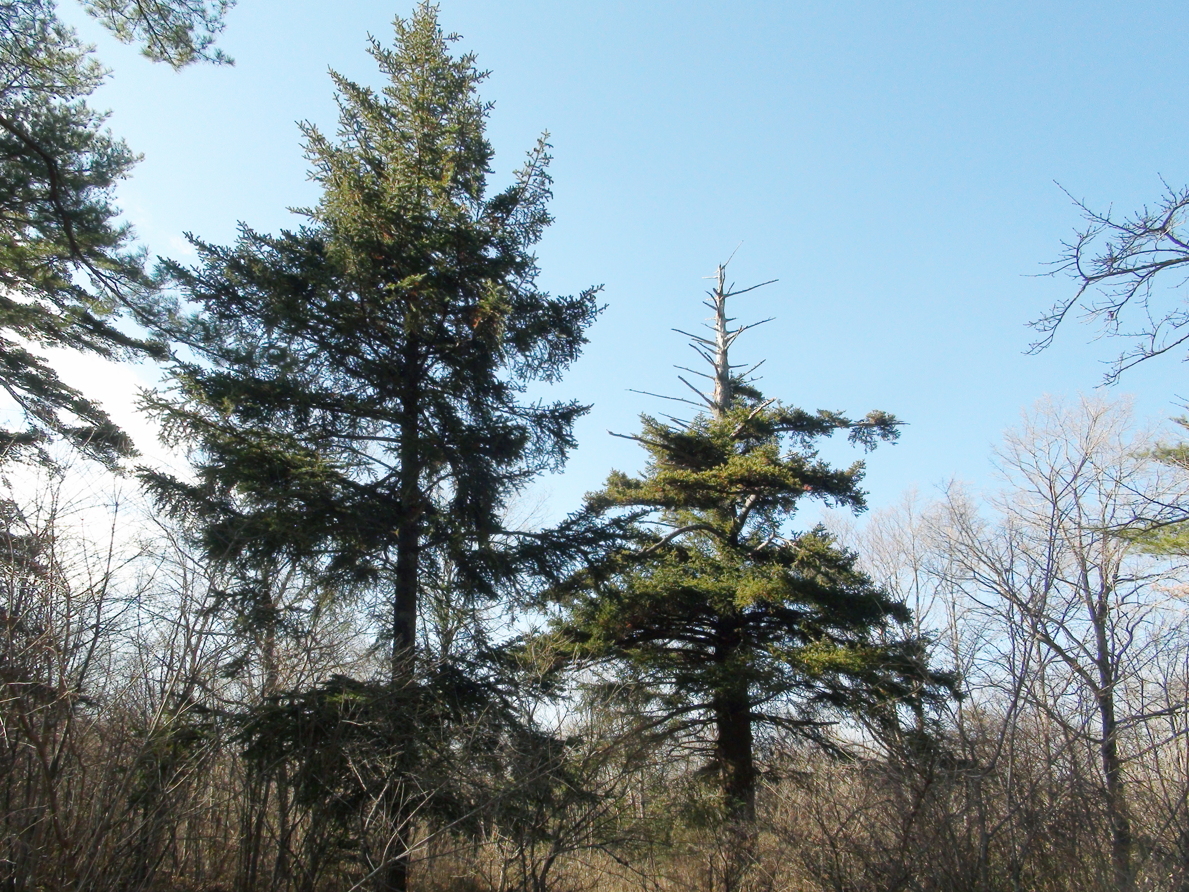 Picea torano forest of Yamanakako village